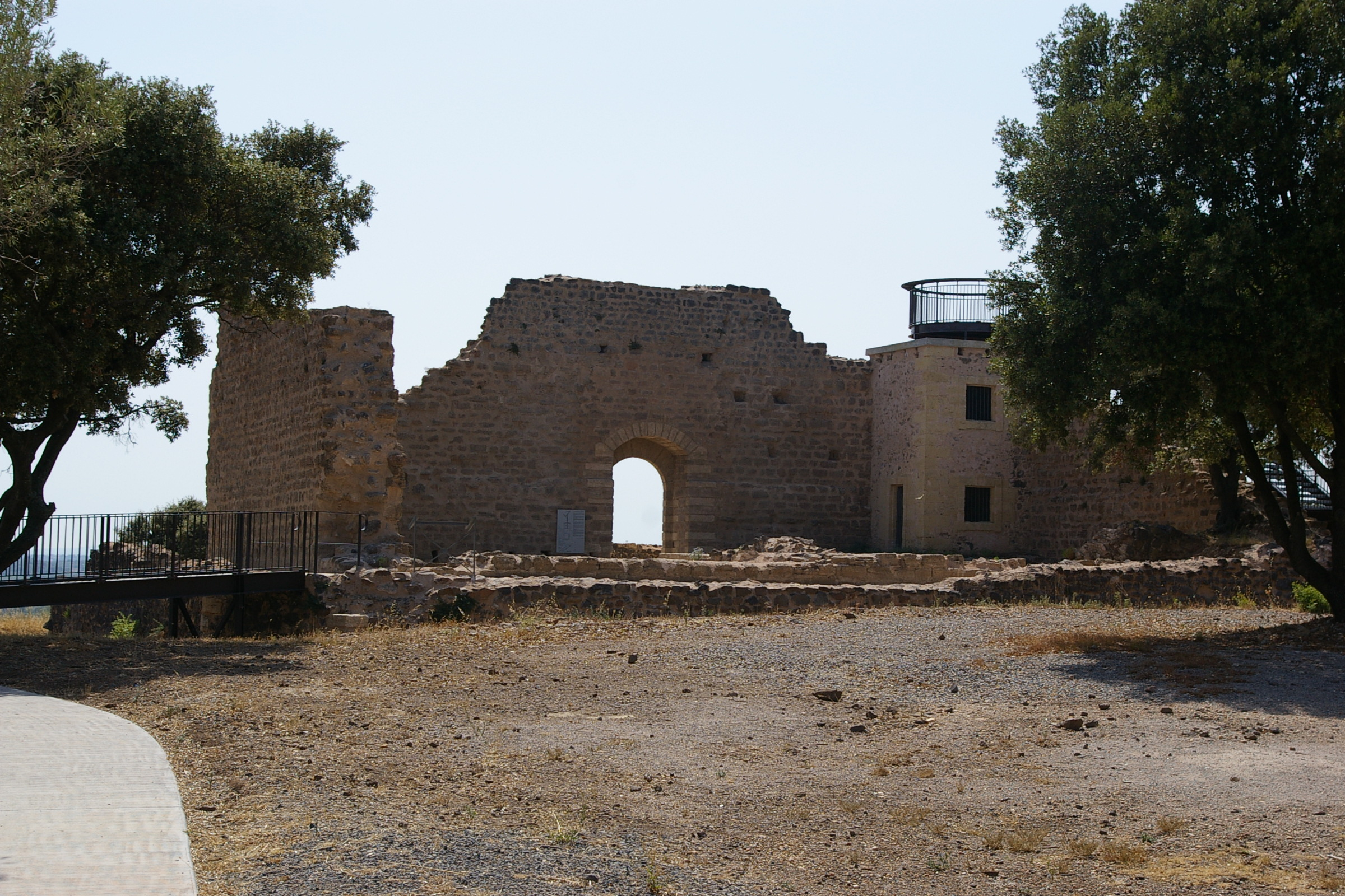 Fort de Valros in Valros, Hérault, France. General view.